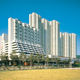 Jubilee Garden view from Shing Mun River